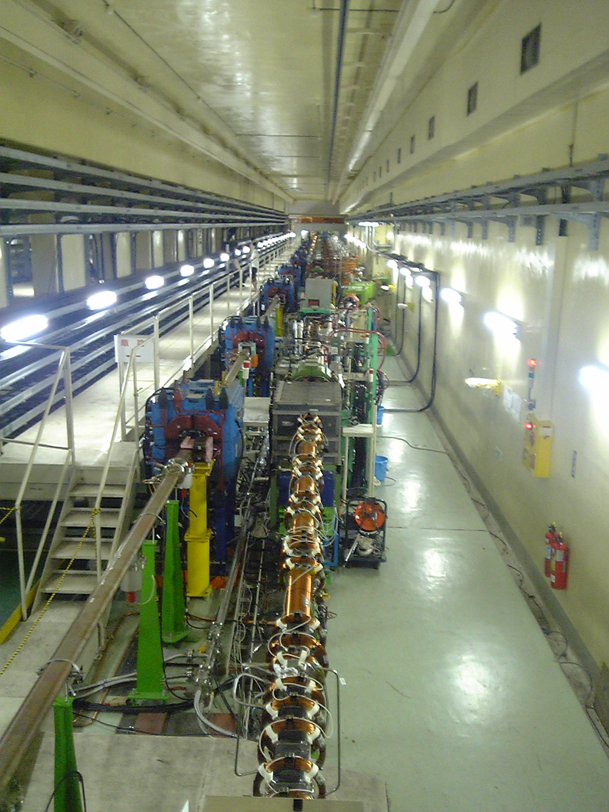 Inter-University Research Institute Corporation High Energy Accelerator Research Organization KEK